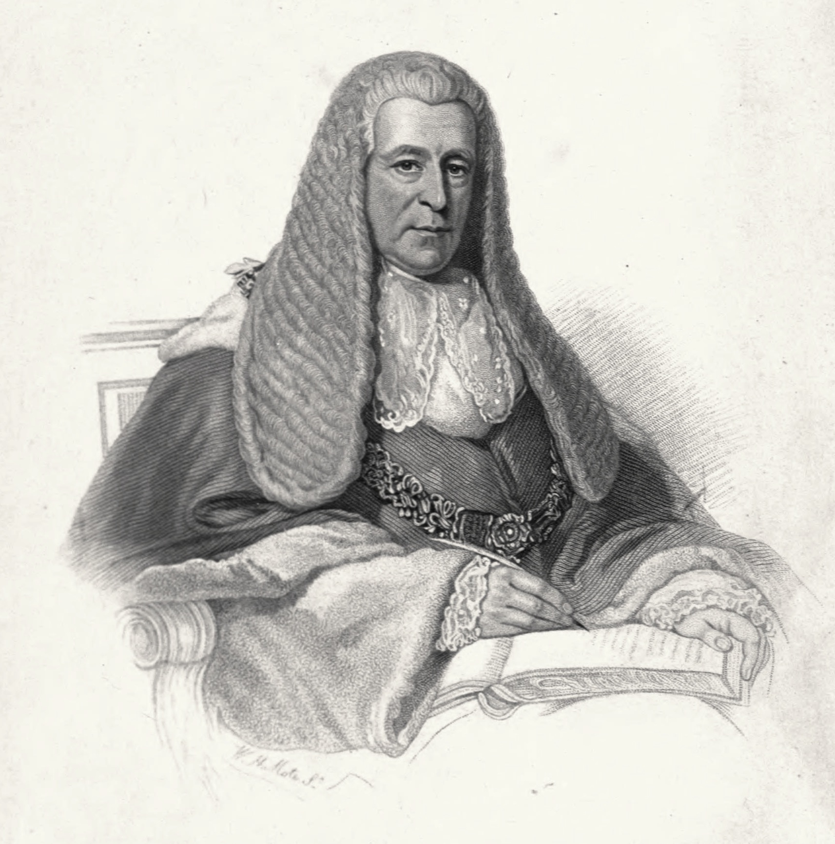 Portrait of Thomas Langlois Lefroy